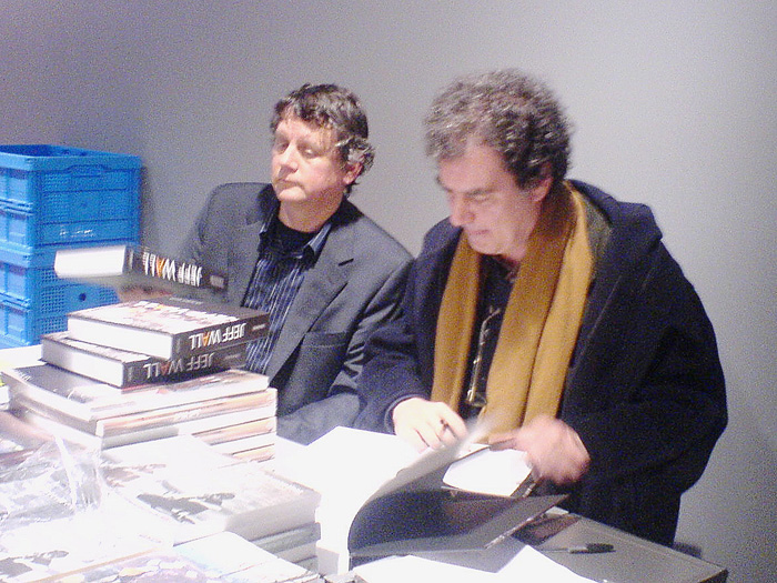 Jeff Wall (left) and Jean-François Chevrier after a conference at Centre Georges Pompidou, Paris. Both are signing the Jeff Wall monograph written by J-F Chevrier.